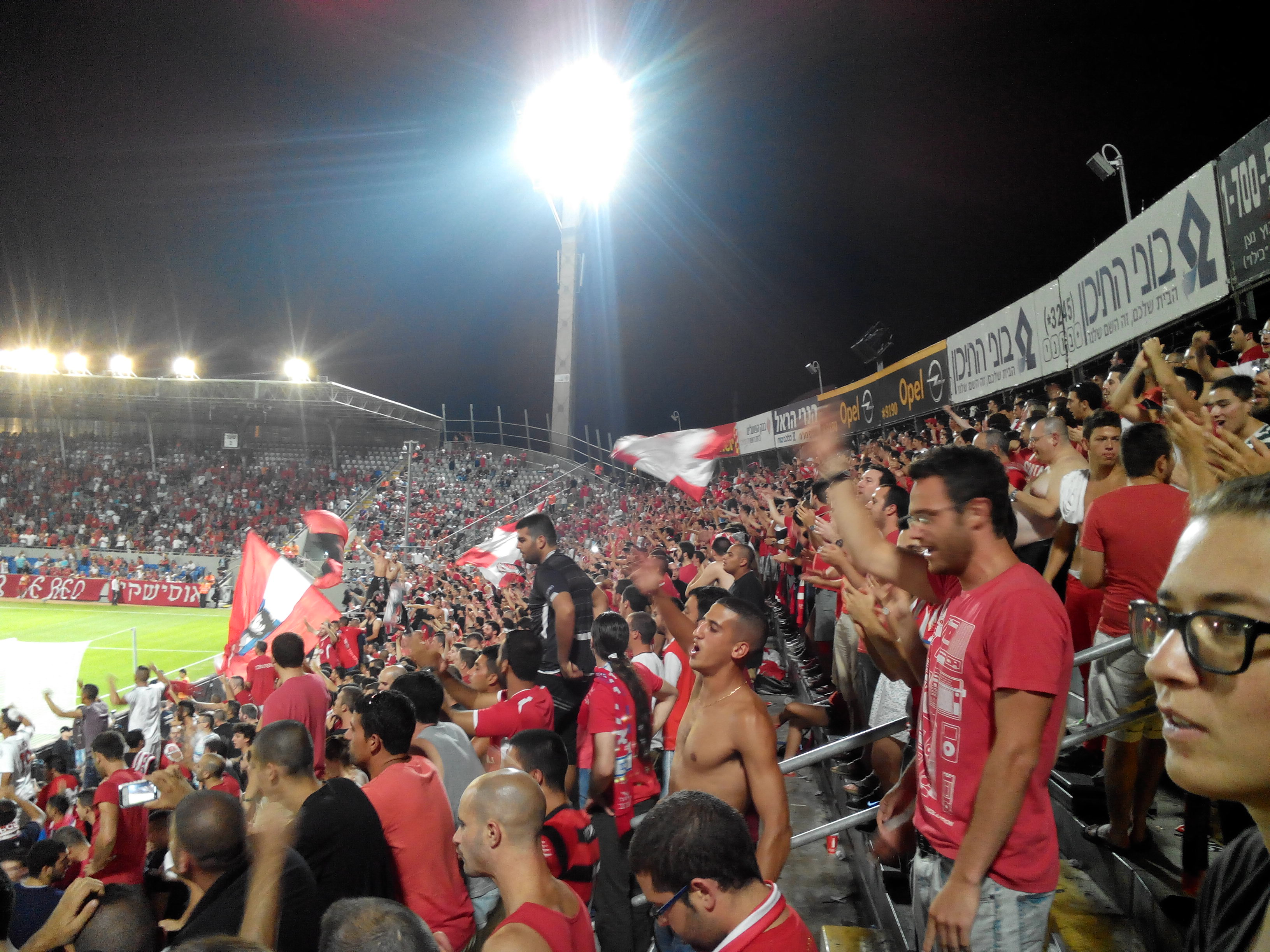 Hapoel Tel Aviv Fans during a match in the UEFA Europa League